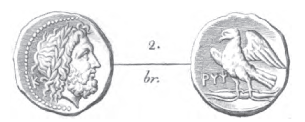 An illustration of a coin of Ruvo di Puglia